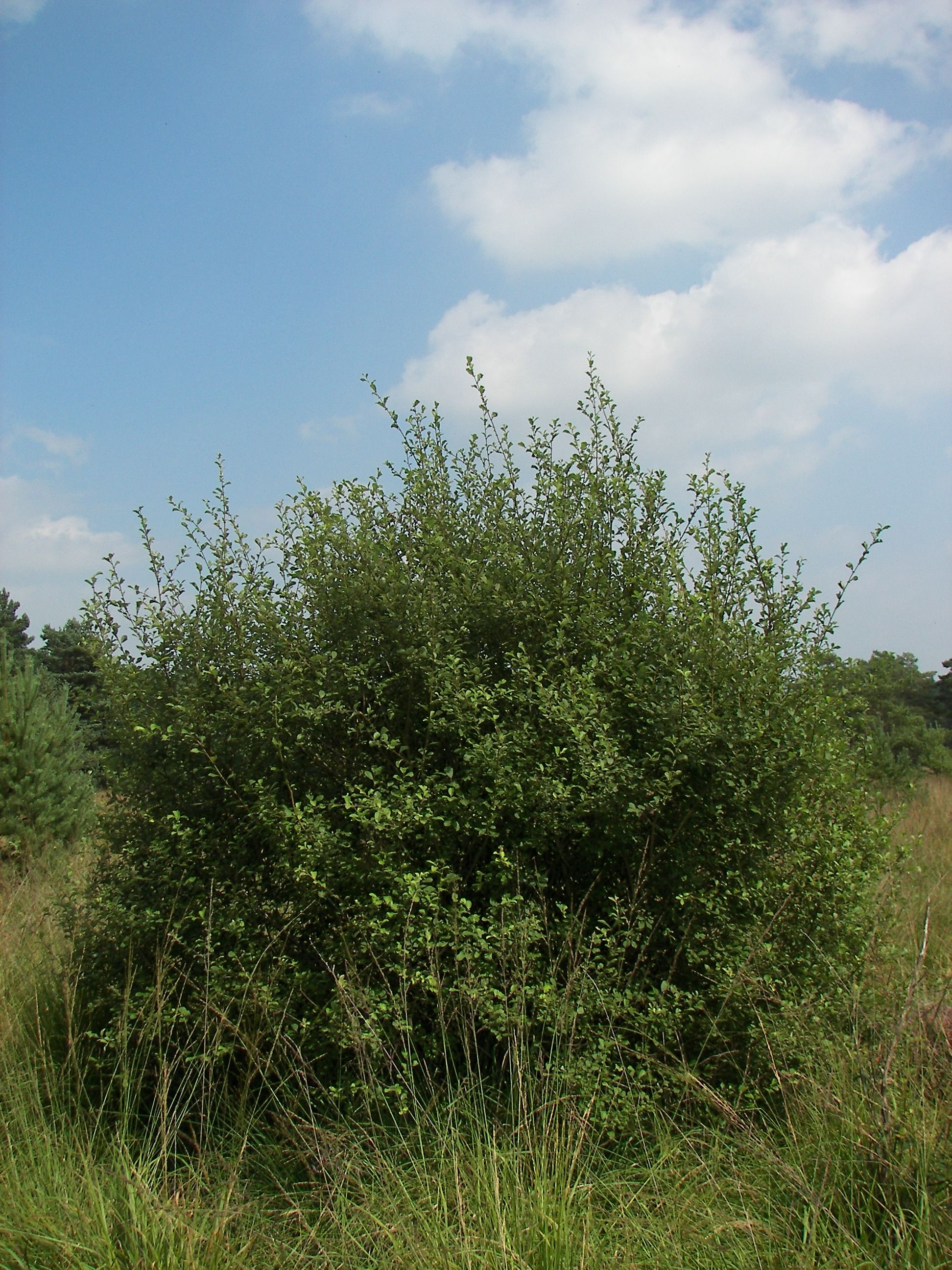 Salix aurita, Location: Franzosenwiesen, Burgwald, Hesse, Germany